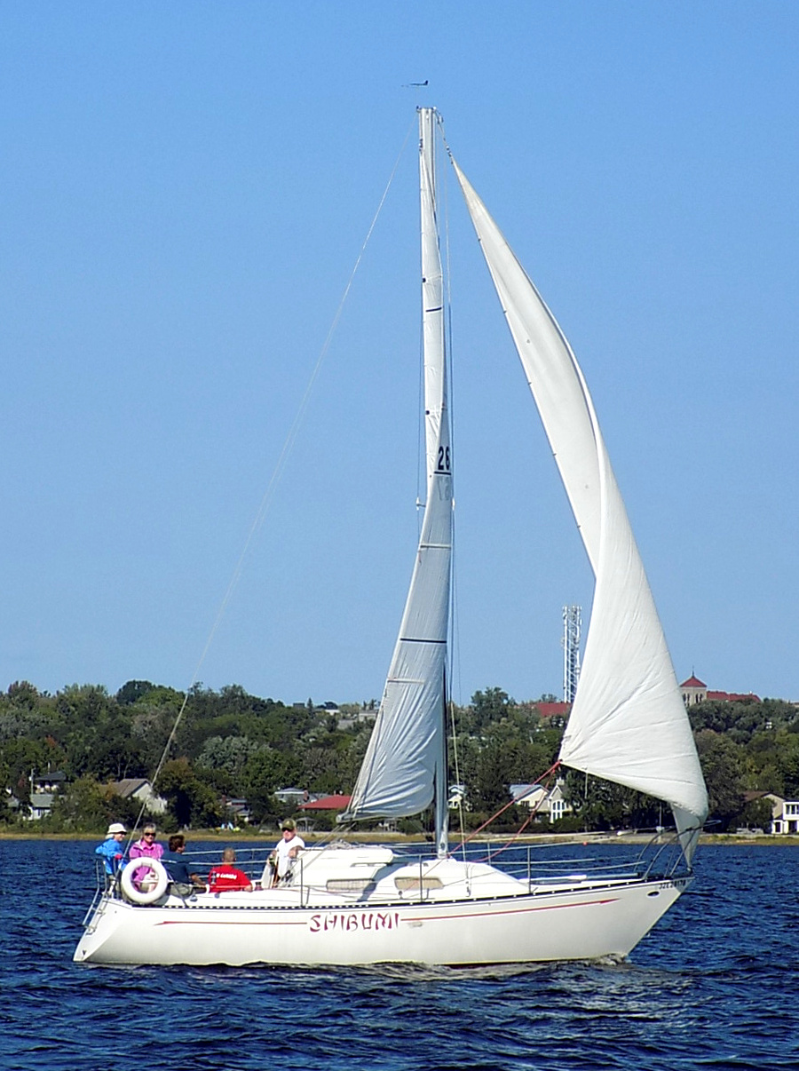 A Mirage 27 (Perry) sailboat named Shibumi.